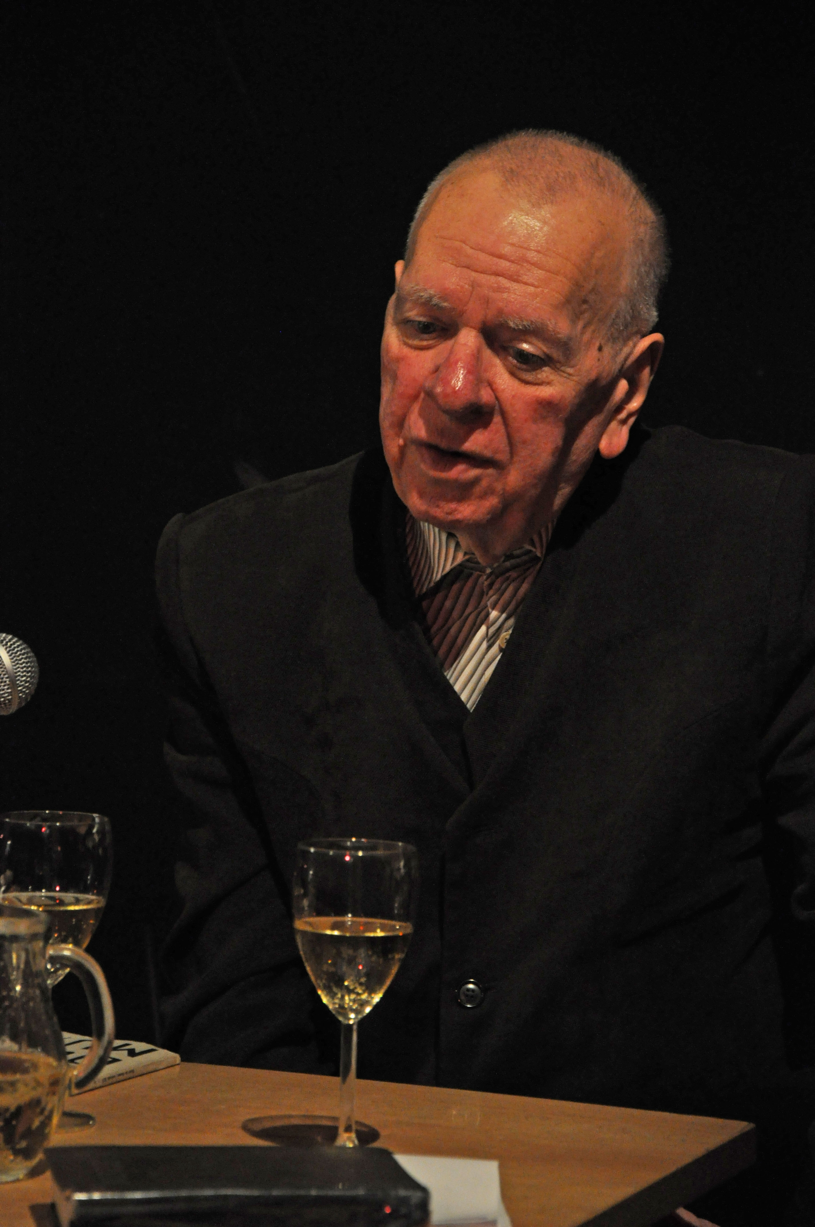 Milan Uhde, czech playwright and politician. Brno, Desert club